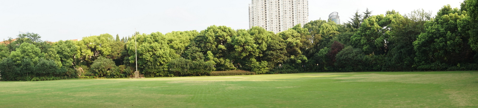 Shanghai No. 3 Girls' High School, great lawn